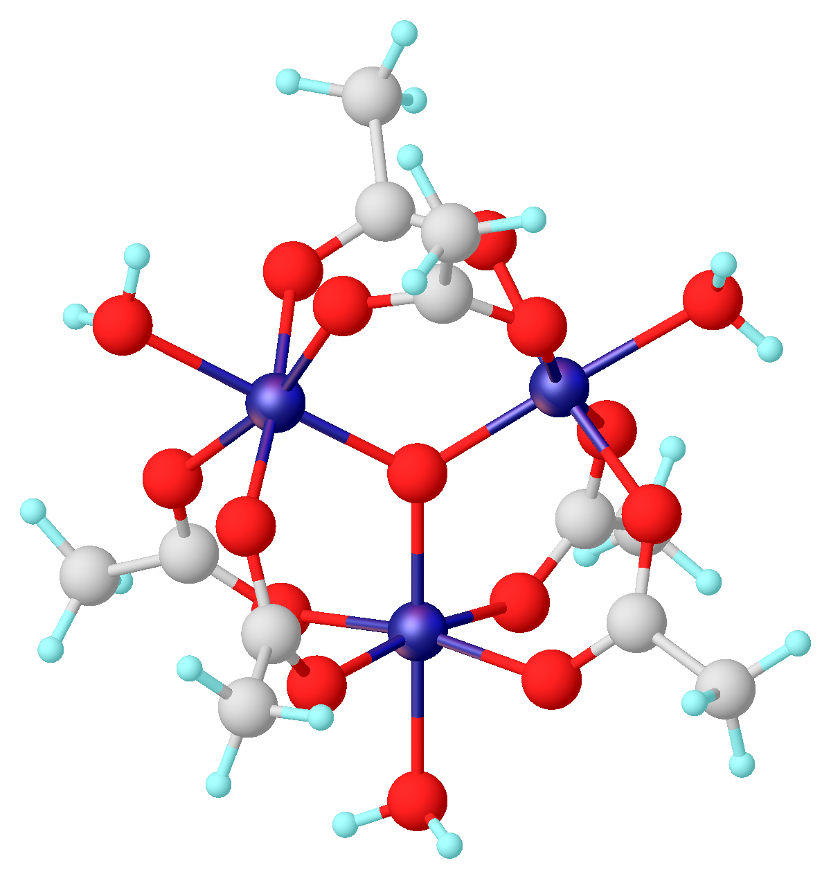 structure of [Cr3O(OAc)6(H2O)3]NO3(H2O)3 from doi 10.1021/acsami.7b06041